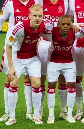 Davy Klaassen, Thulani Serero crop.